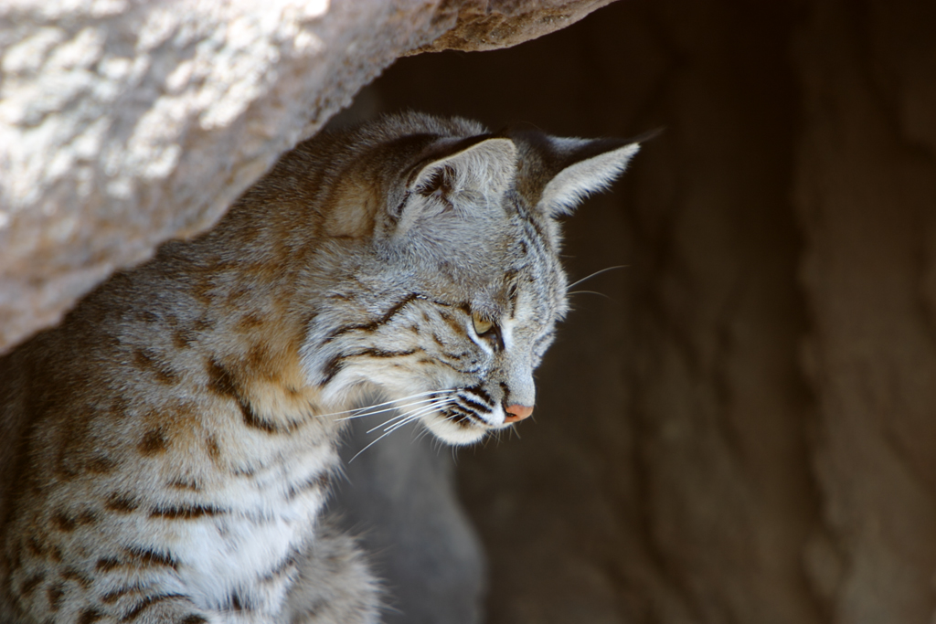 Bobcat (Lynx rufus) portrait. This image goes against my usual protocol - it is my only image, on Flickr, of a captive animal. Taken at a wild life sanctuary in Tucson Arizona, this cat is so adorable, I just have to share her with you. Image taken in 2004 using an early model Canon 10D